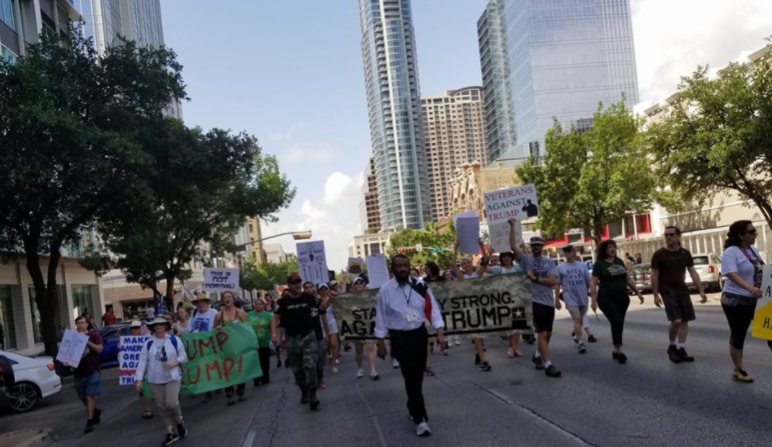 Congressman Al Green of Texas marches with protesters at Impeachment March Austin on July 2, 2017.